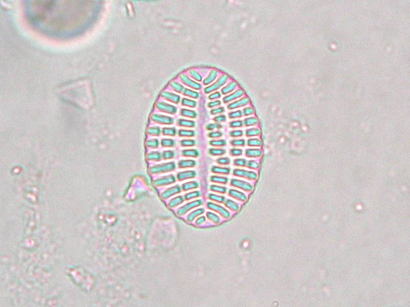 This work is free and may be used by anyone for any purpose. If you wish to use this content, you do not need to request permission as long as you follow any licensing requirements mentioned on this page.